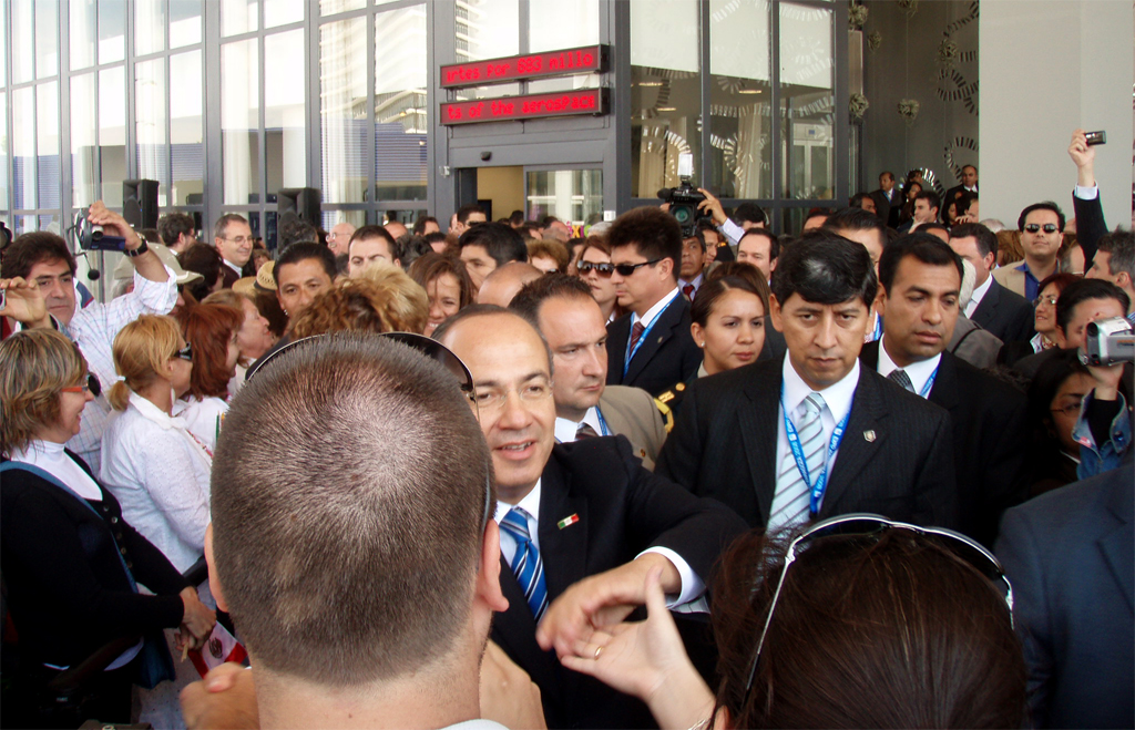 President of Mexico, Felipe Calderón, outside the Mexican Pavilion during the National Day of Mexico in Expo 2008 Zaragoza.